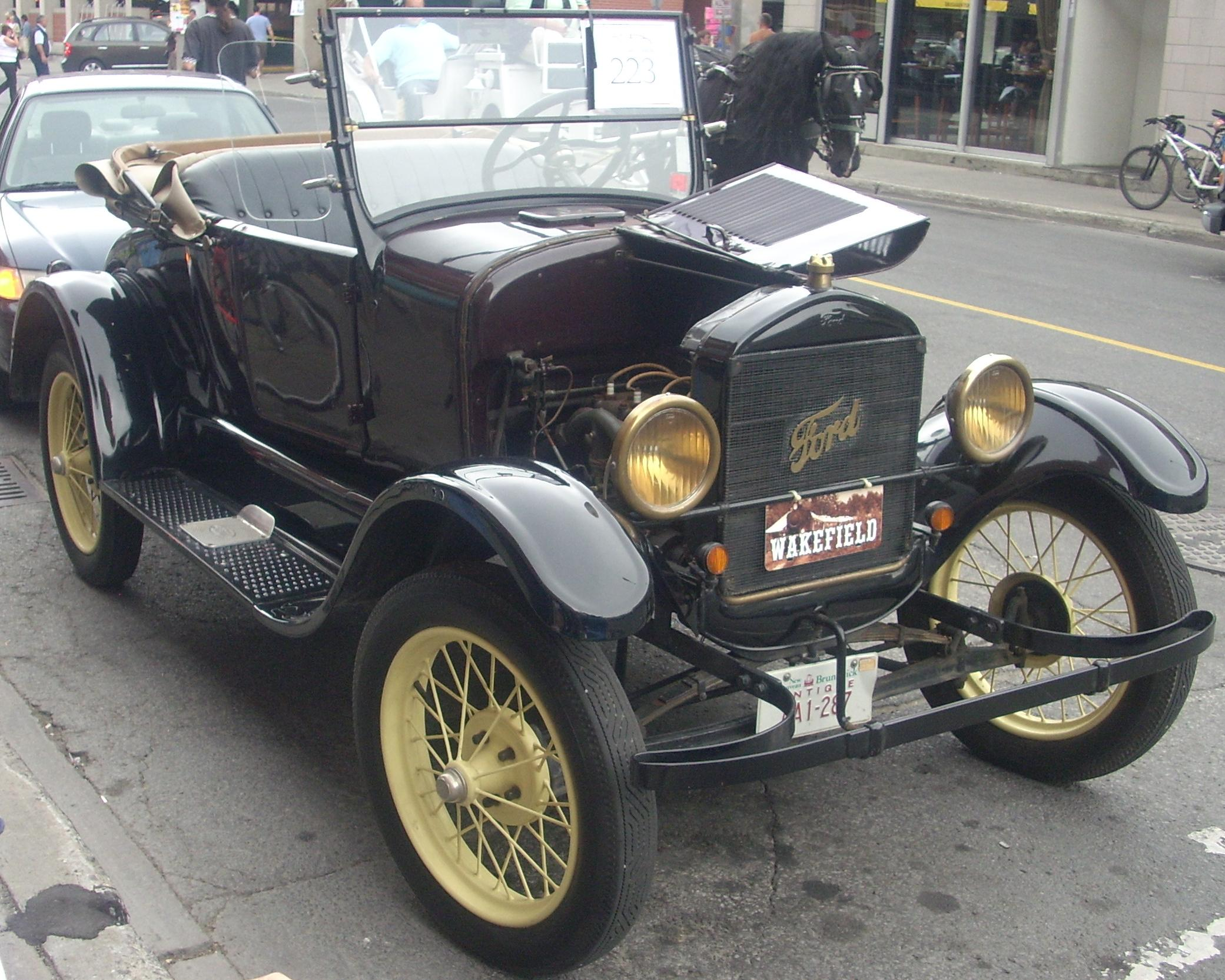 Ford Model T photographed in Ottawa, Ontario, Canada at the Byward Market Auto Classic 2009.